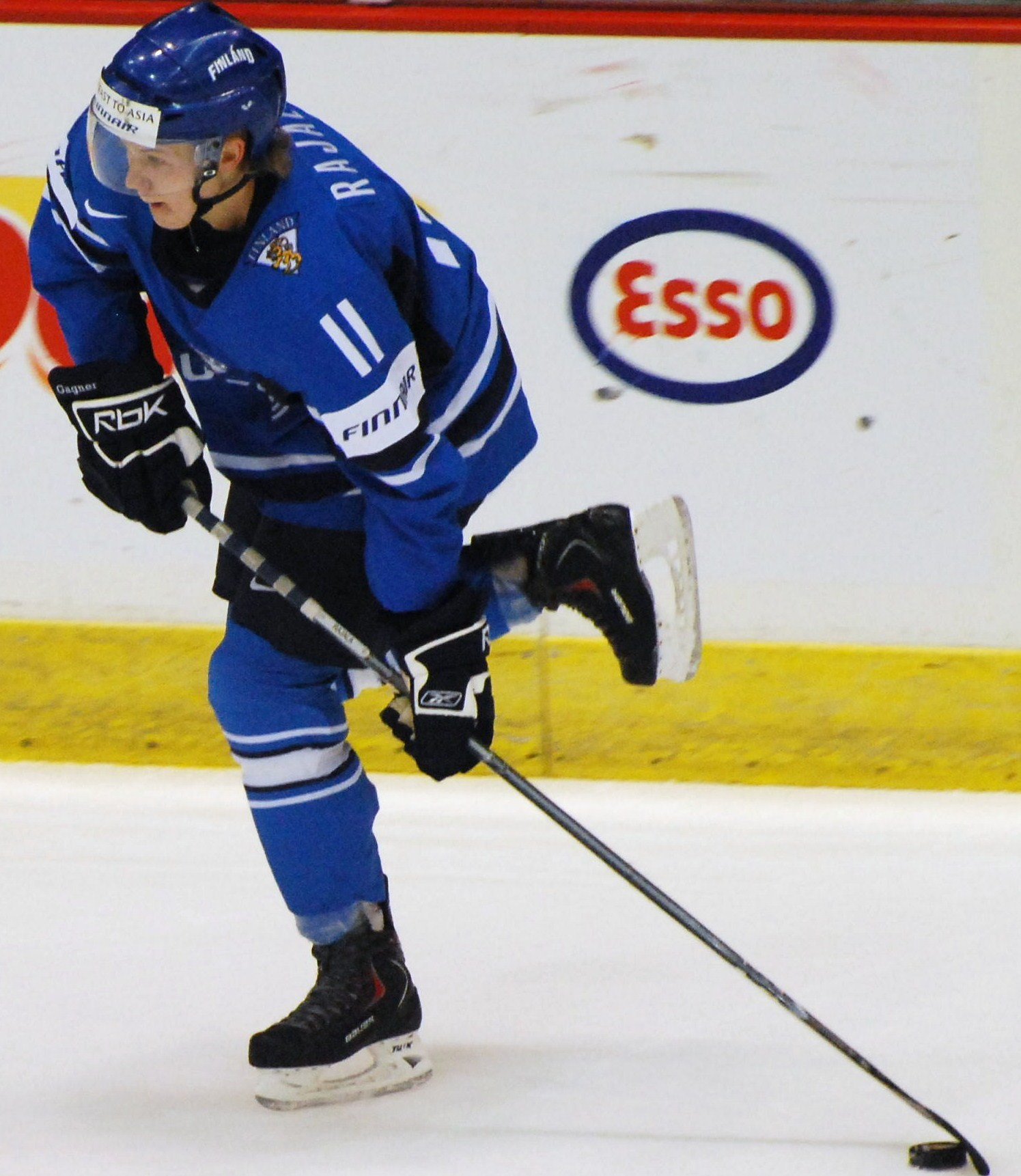 Toni Rajala takes a shot during the 2010 World Junior Championships.